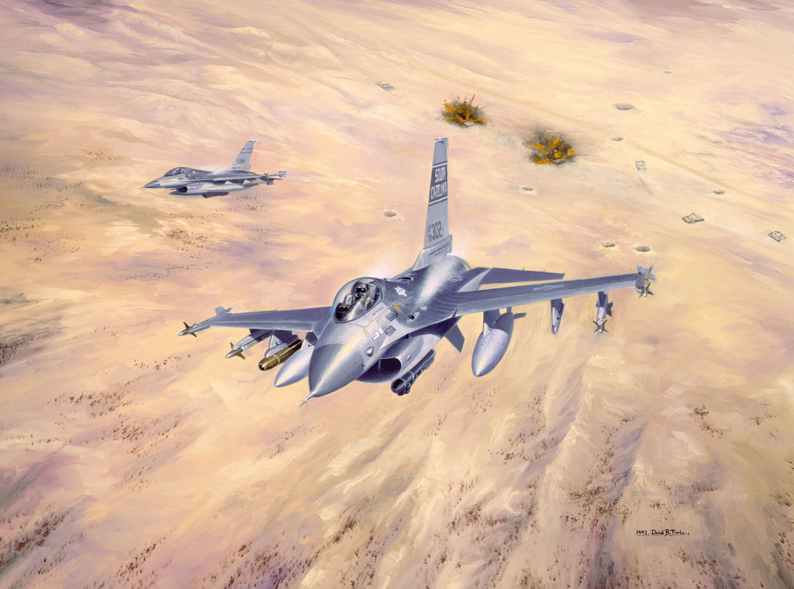 Original caption: “A new era in warfare began on 17 January 1991 when the Allied air forces initiated the air portion of Operation Desert Storm, a 37-day air offensive which overwhelmed the Iraqi armed forces and opened the way for the ground force attack. The F16A's of the South Carolina Air National Guard's 169th Tactical Fighter Group, the "Swamp Foxes," struck early and often, playing a crucial role in the devastating allied air offensive. "Swamp Fox" F16A fighters left Al Kharj Air Base, Saudi Arabia on 5 February 1991 on day 20 of the air offensive. Some of the F16's were armed with "Maverick" air-to-ground missiles designed to destroy pinpointed targets. When this sortie was completed, the pilots reported five Iraqi tanks and one truck destroyed.” —